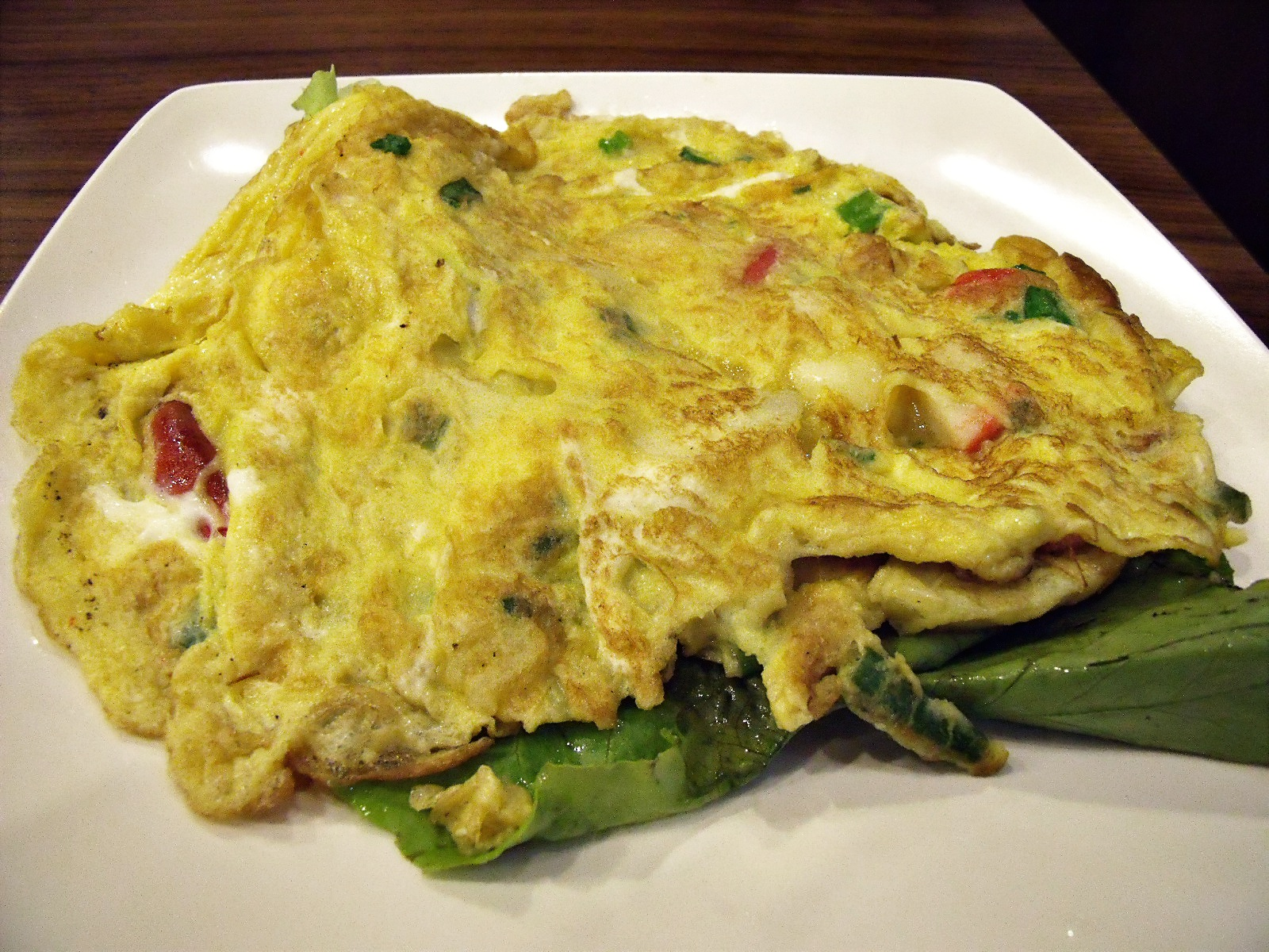 Omelette served with lettuce.